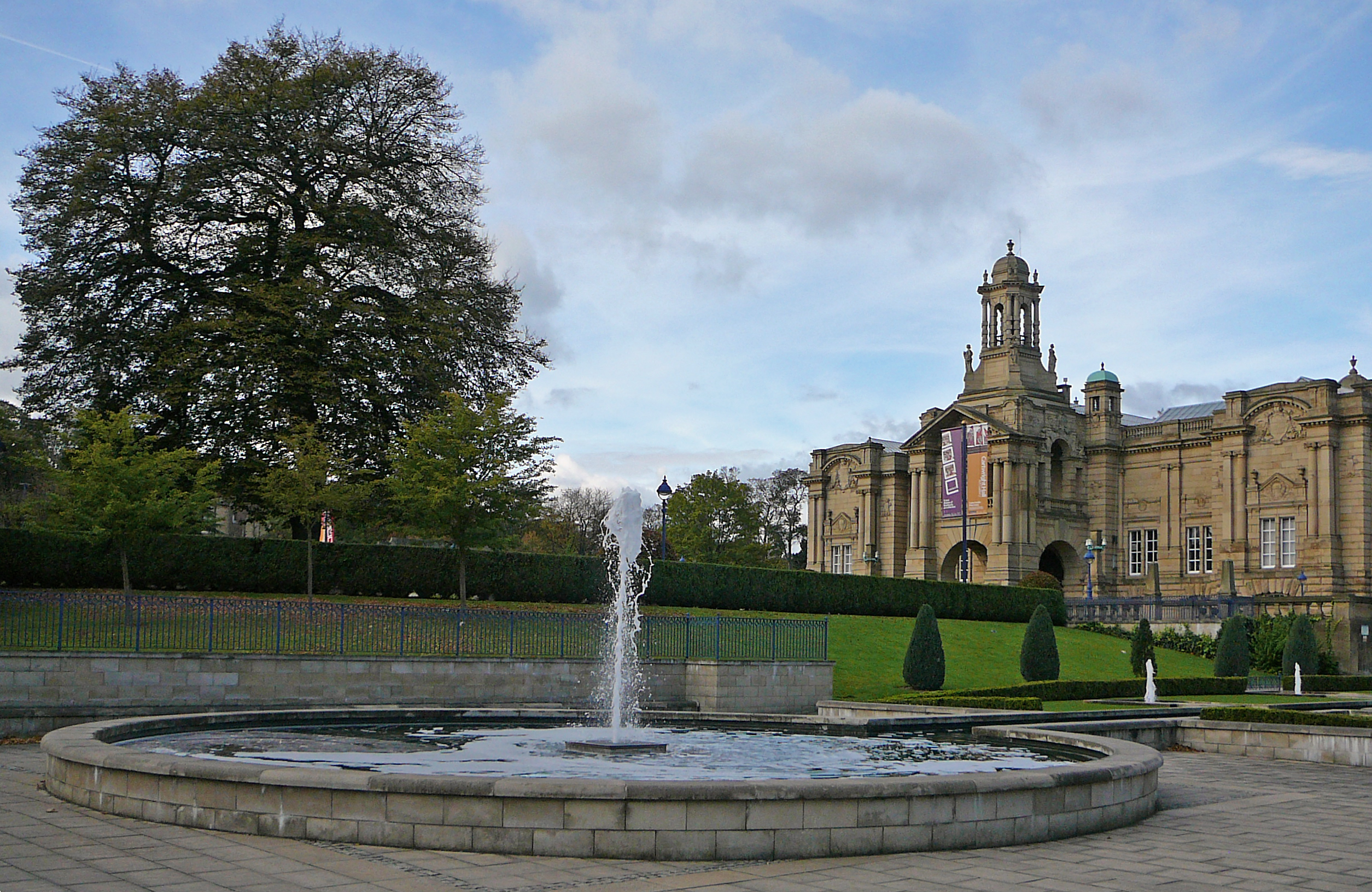 Cartright Hall and a fountain in Lister Park, Bradford, West Yorkshire. Taken on Friday the 22nd of October 2010.